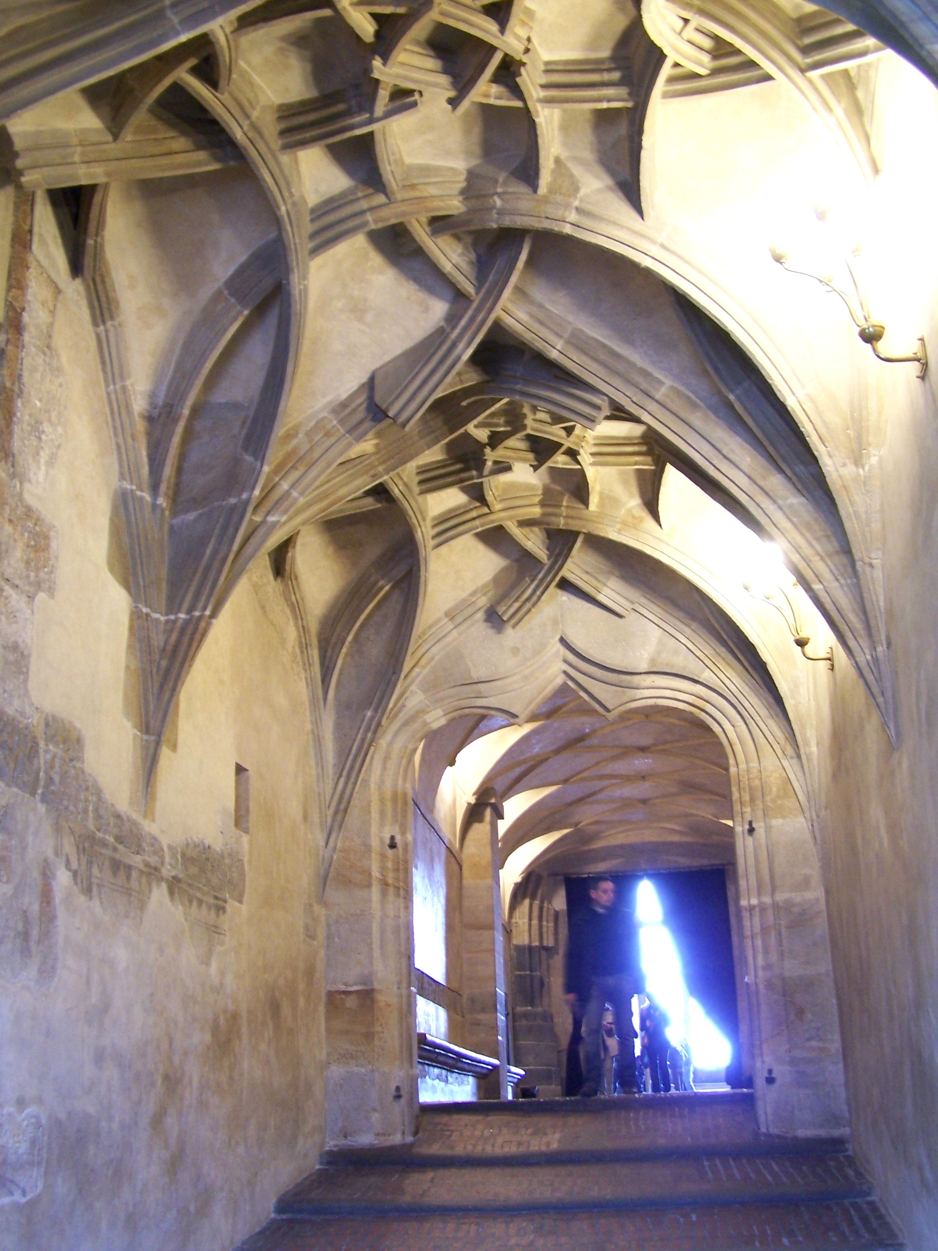 Equestrian stair in Prague Castle.